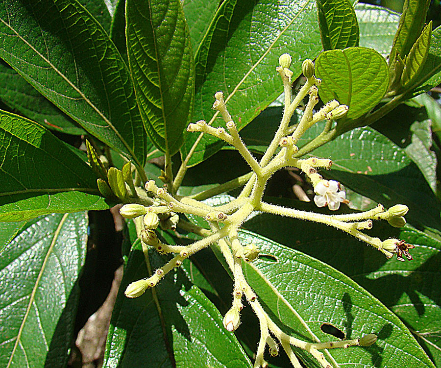 Native to the western Neotropics. Used is ayahuasca and other psychedelic concoctions. Photo from Bastimentos Island, Panama.